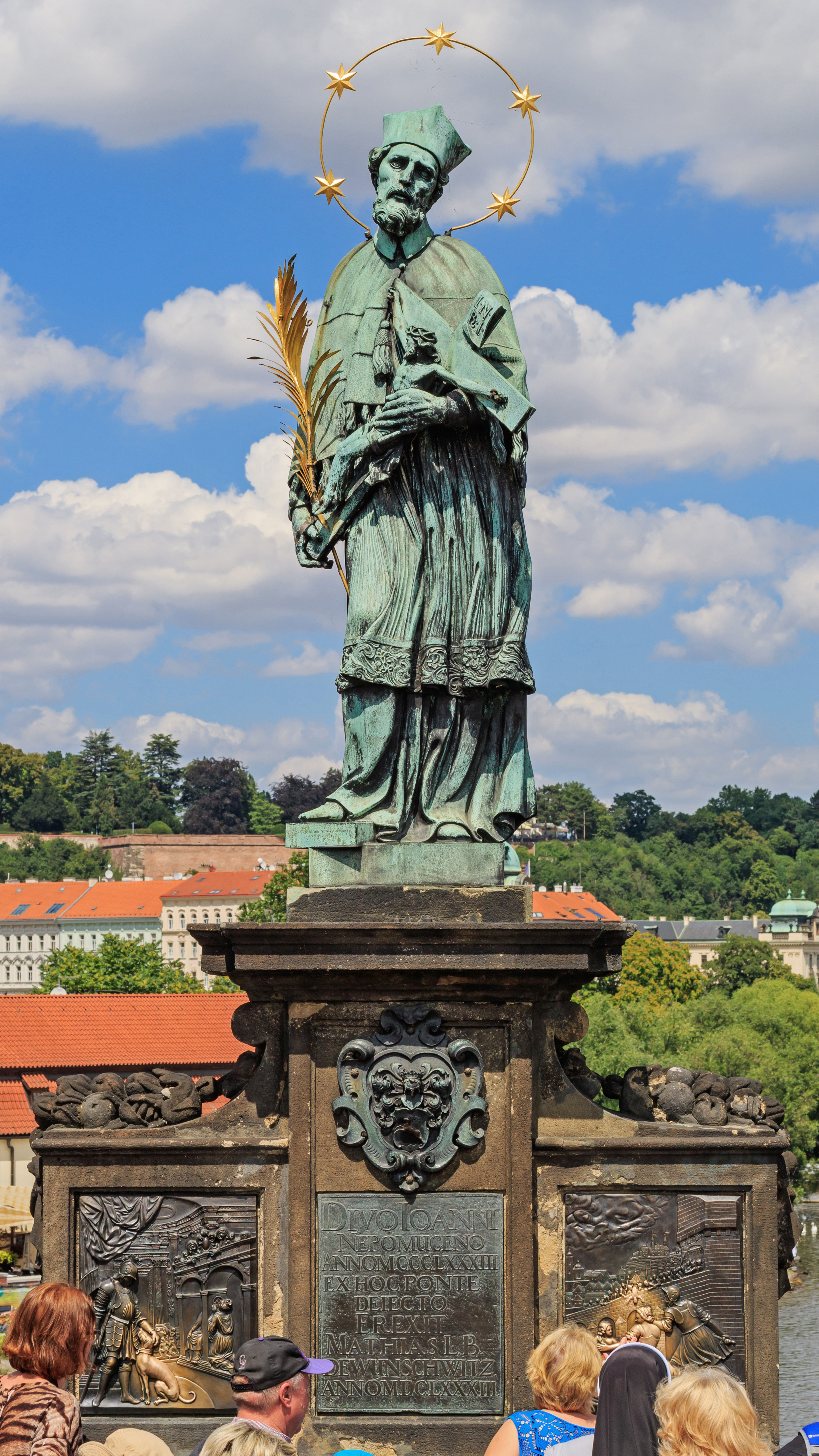 Statue of John of Nepomuk on Charles Bridge in Prague (Czech Republic)